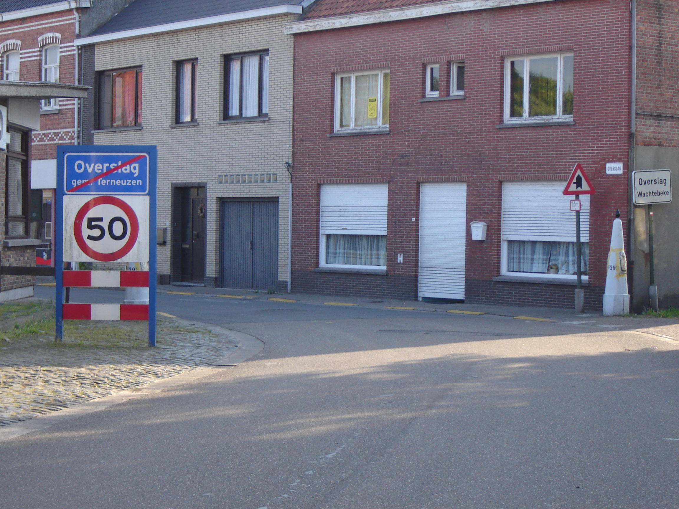 Belgian-Dutch border in Overslag, looking from the Netherlands towards the Belgium. At the left: border post no.298 (blocked by signboard), at the right border post no.299. Nowadays Belgian-Dutch border. Overslag, Wachtebeke, East Flanders, Belgium Overslag, Terneuzen, Zeeland, Netherlands